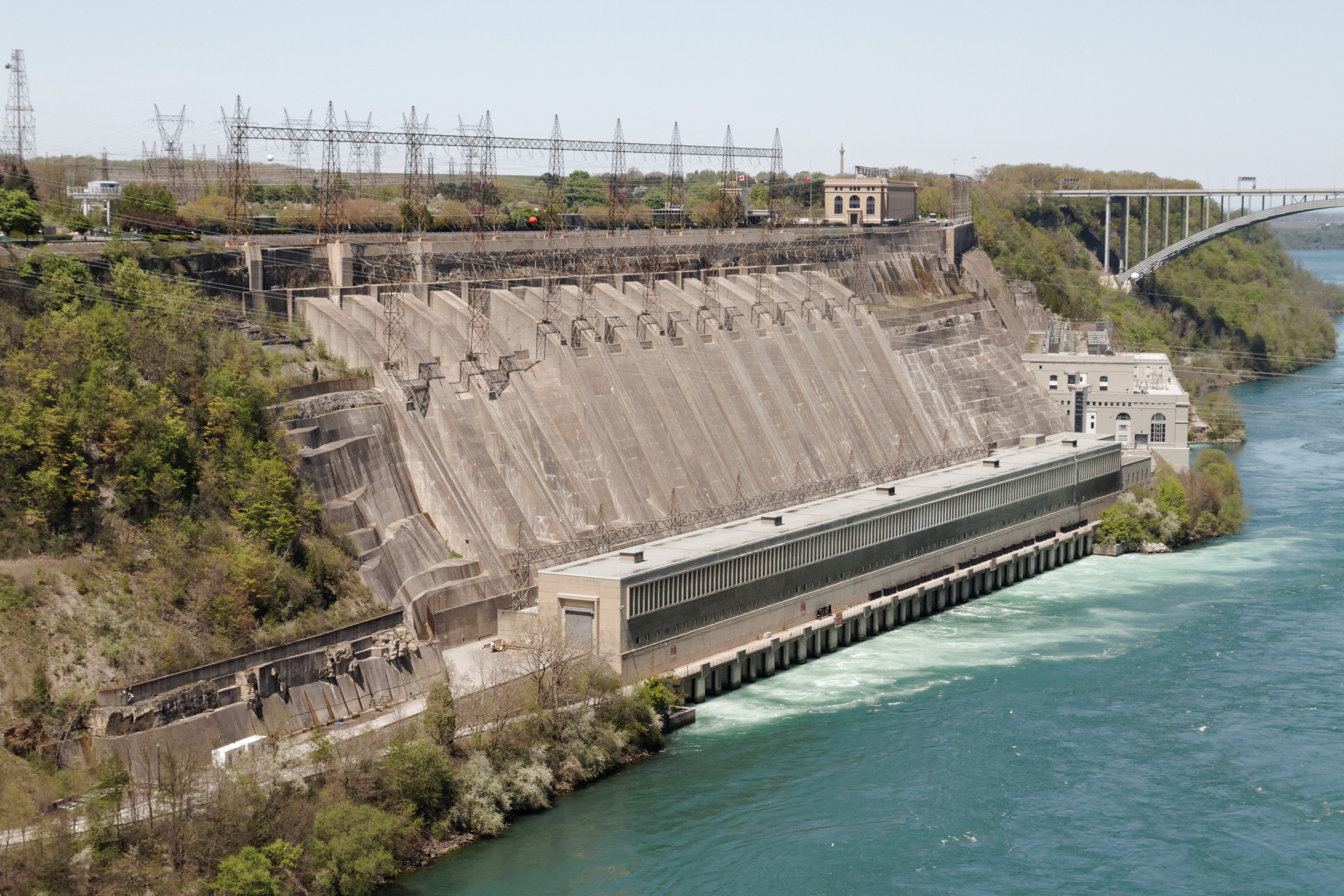 Niagara Falls and Niagara Gorge